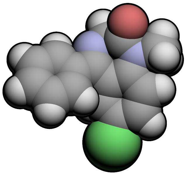 Molecular spacefill of Diazepam